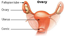 Picture of ovary by the National Institute of Health